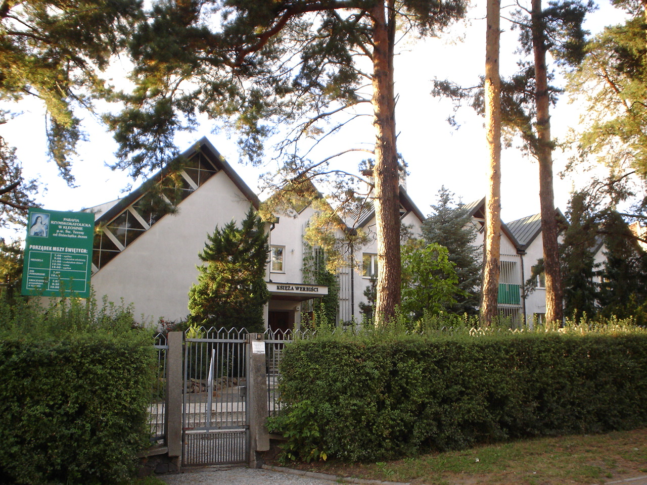 Kleosin - a village near Białystok, Poland